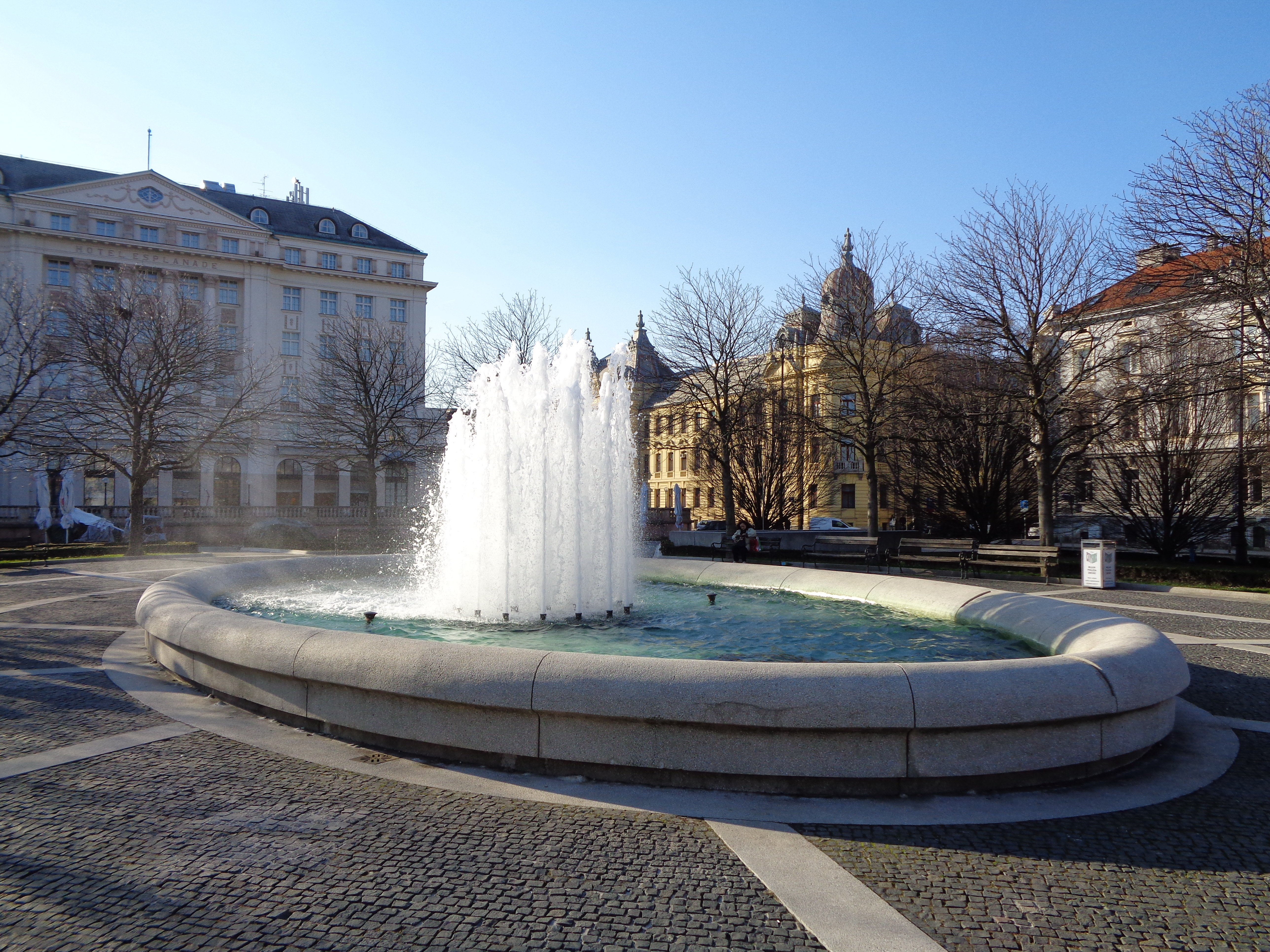 Zagreb, Dr. Ante Starčević Square - fountain